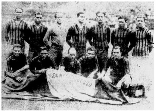 In 1931, Institución Atlética Sud América did a tour in Brazil, playing some friendlies against brazilian teams. The photograph, published in Jornal do Brasil newspaper, shows the main team.